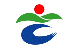 Flag of Satsuma Kagoshima